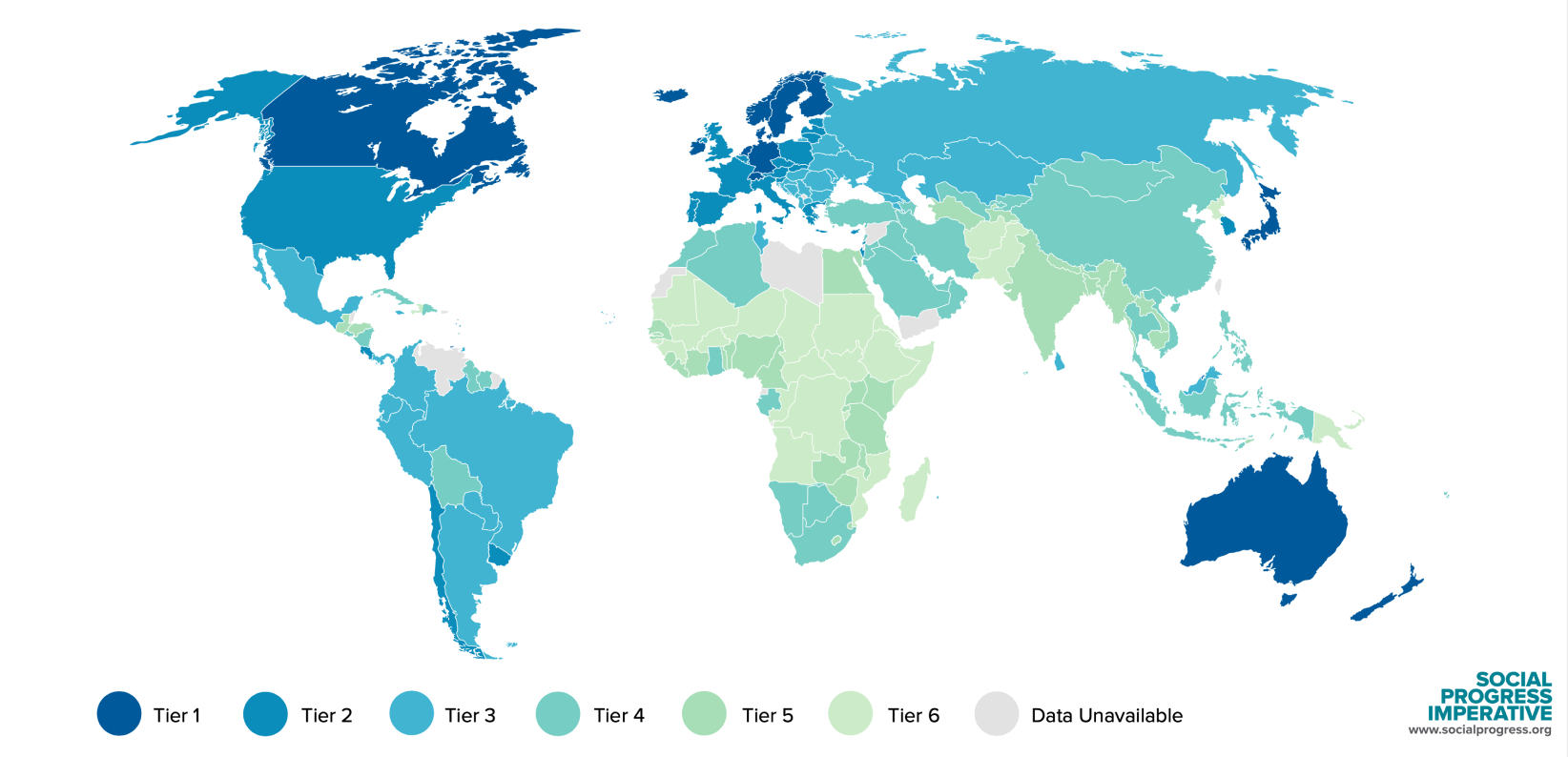 Tiering system for Social Progress Index